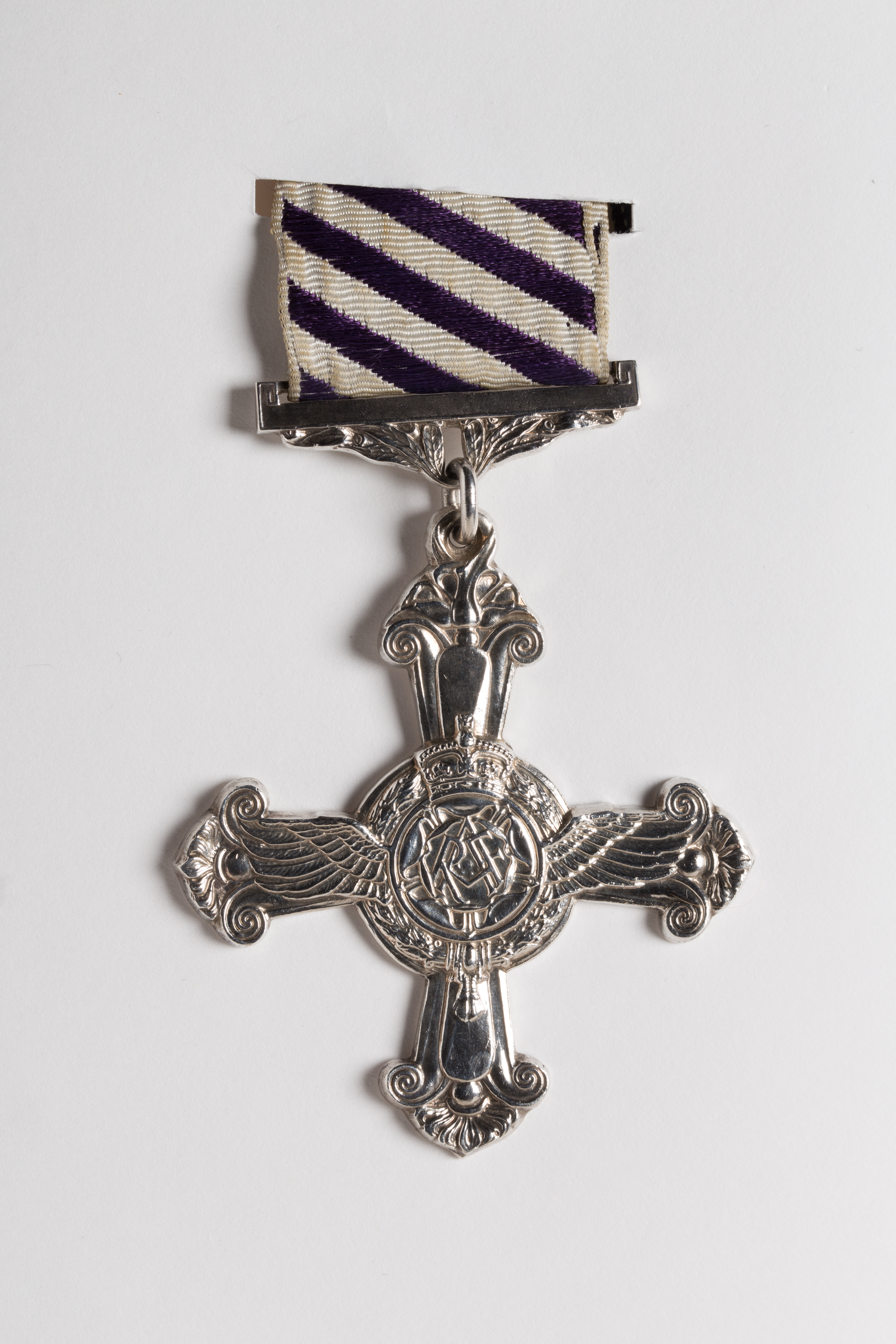 Distinguished Flying Cross (DFC) EIIR - 1971 Medal (part of set) awarded to S-Ldr Douglas Ian Paterson DFC, RNZAF, Vietnam War silver cross medal; 54mm wide; with ribbon obverse- silver cross flory terminating in rose, surmounted by second cross in form of propeller blades (vertical) and wings (horizontal), charged at centre with roundel within laurel wreath; crowned RAF monogram at centre reverse- royal cypher above date 1918 dated verso- 1971 suspension bar decorated with a sprig of laurel ribbon- 30mm wide; diagonal stripes of alternating purple and white